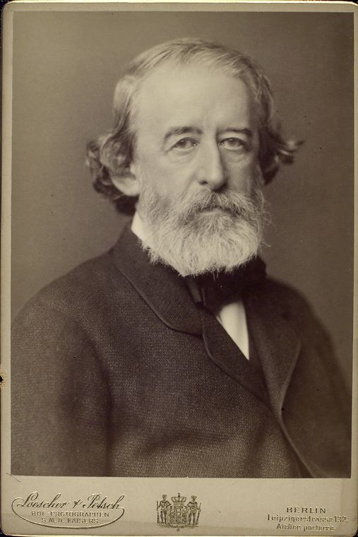 Hermann Grimm, son of Wilhelm Grimm, and a German historian and writer